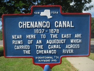 Historic marker of the Chenango Canal #19 at Greene, NY. East of here are ruins of an aqueduct that carried the canal across the Chenango River.